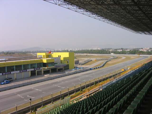 Taken by user user:Ngchikit on 17 Dec 2004.